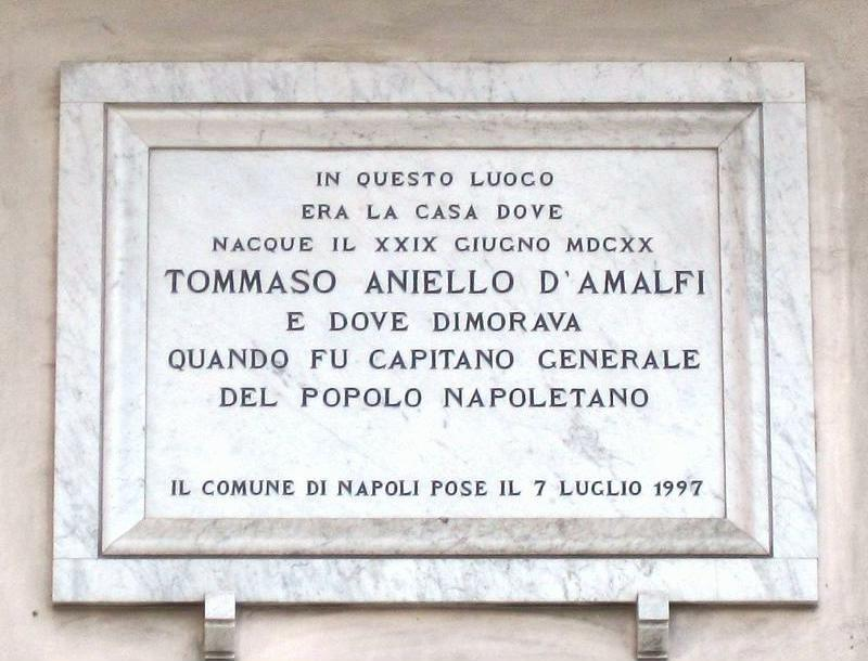 Inscription near Masaniello's house in Vico Rotto al Mercato (Naples).